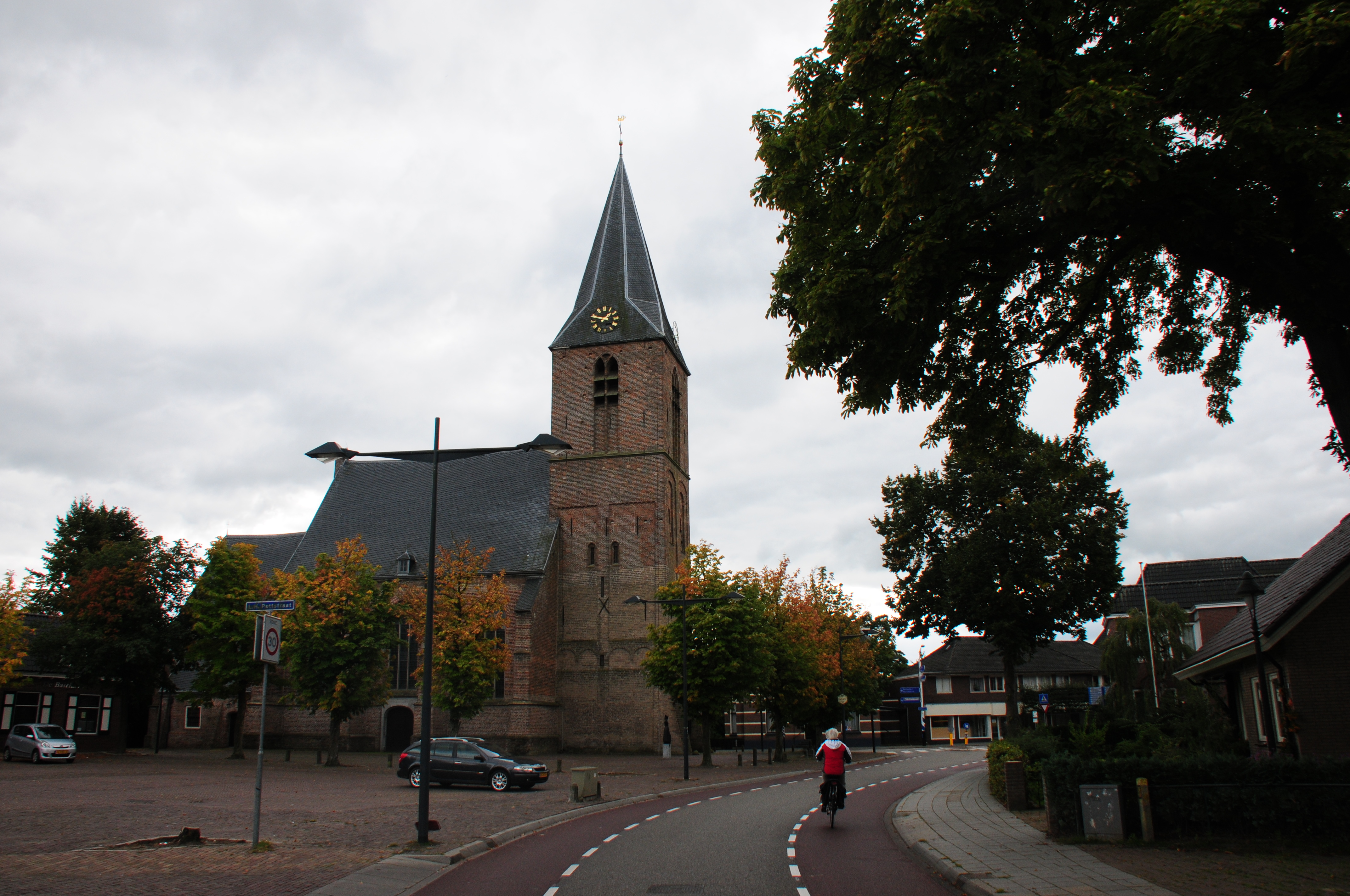 Protestant church of Olst in the center of the village